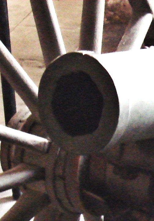 Hexagonal rifling_of_Le_Petulant